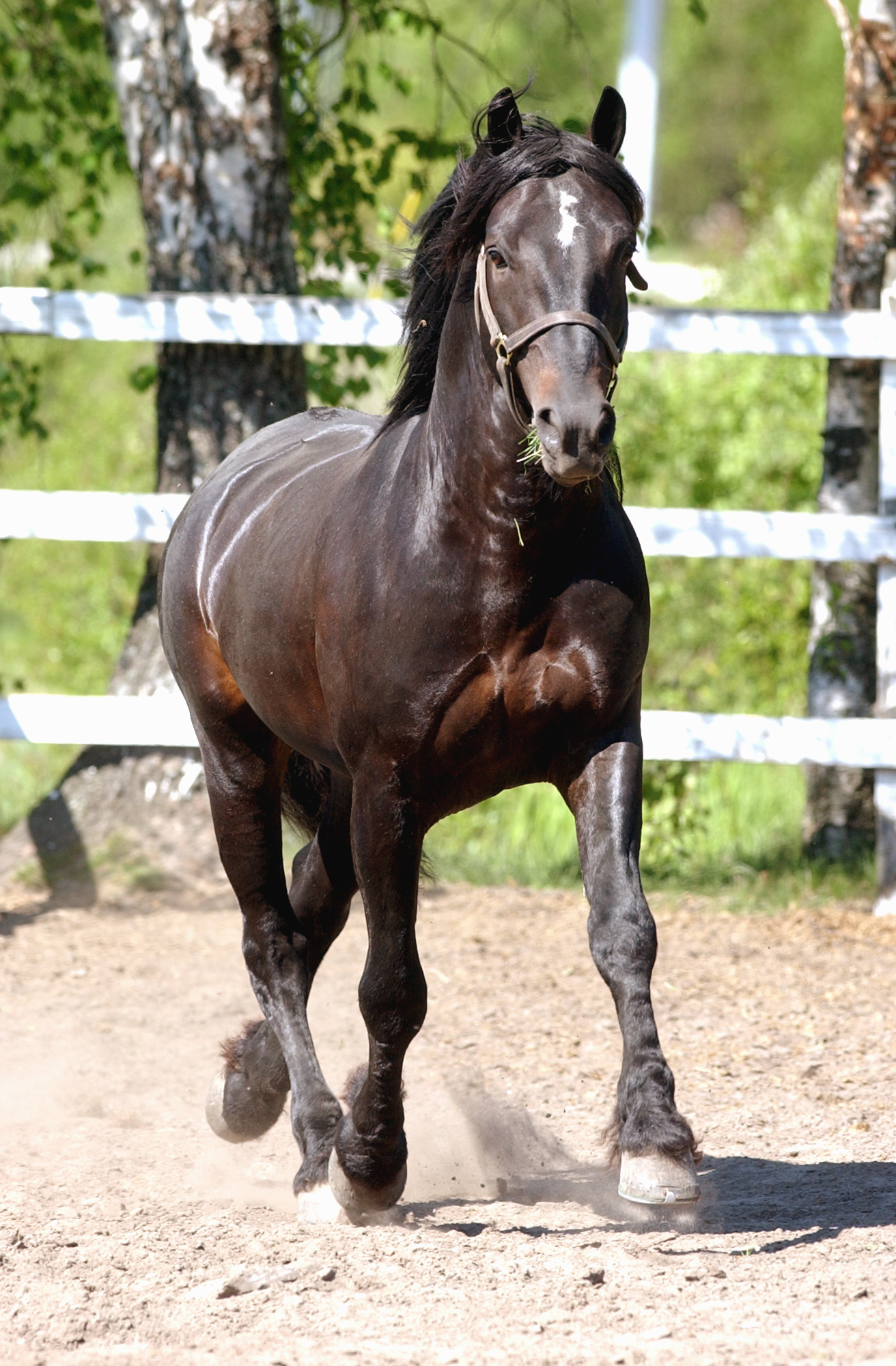 Coldblooded trotter Järvsöfaks in his enclosed pasture.